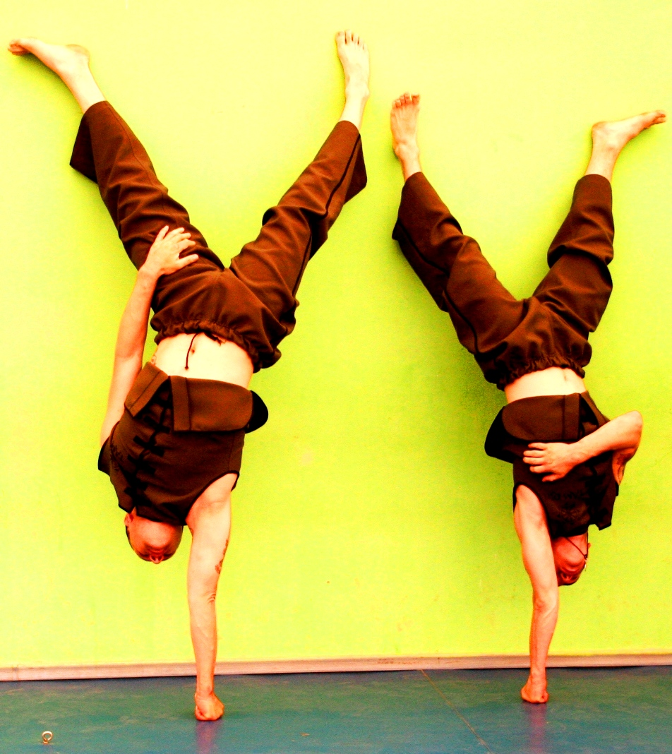 Tam Qui Khi-kong. Exercise "Fist of the Buddha"